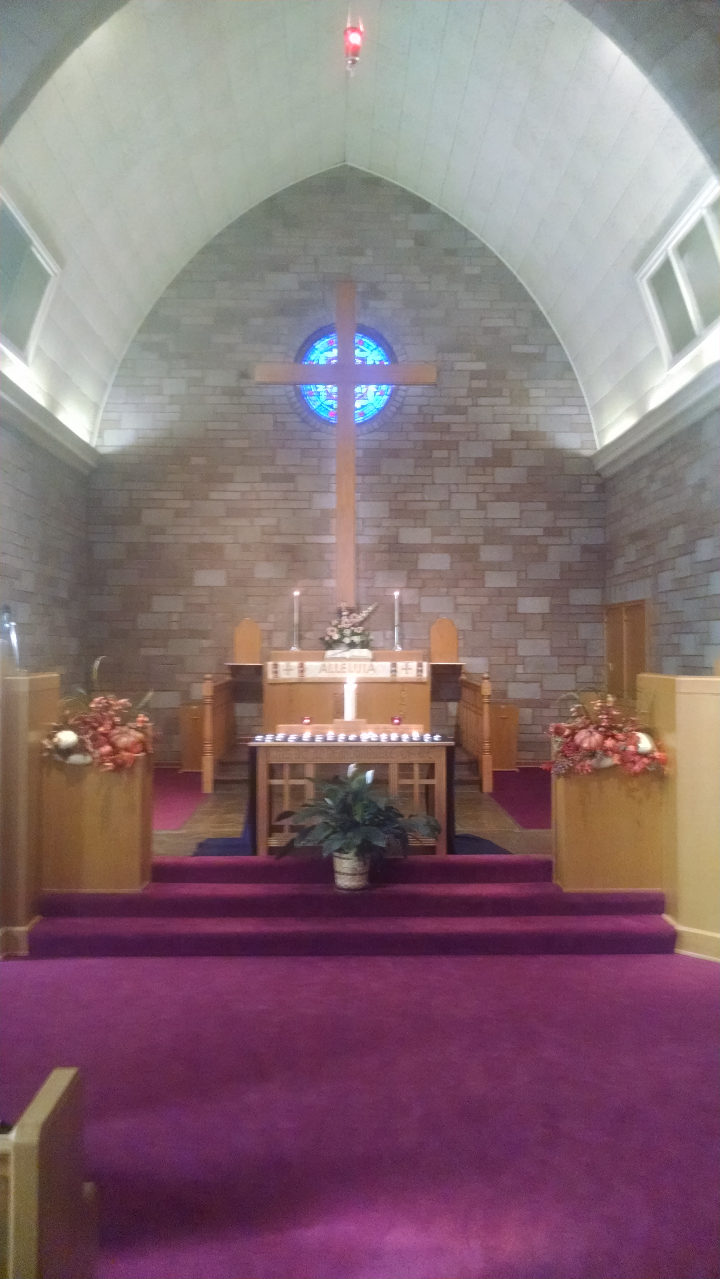 The image is of Totenfest (Totensonntag) being observed at St. Luke's United Church of Christ. This picture was clicked on November 8, 2015.